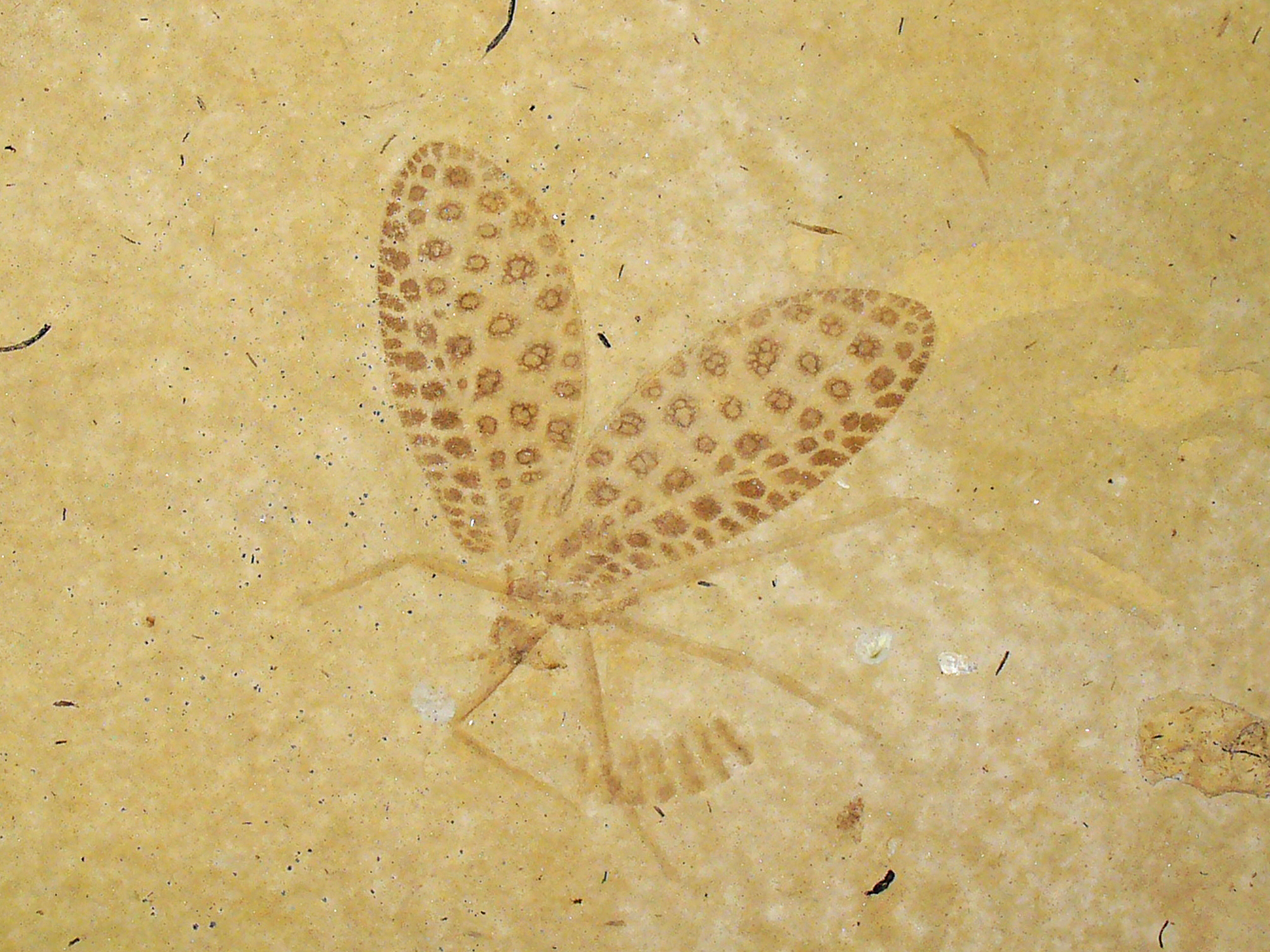 Archepseudophylla laurenti (jr synonym Lithymnetes laurenti), katydid with pigment pattern on the wings; Lower Oligocene, Céreste, Southern France; Staatliches Museum für Naturkunde Karlsruhe, Deutschland.